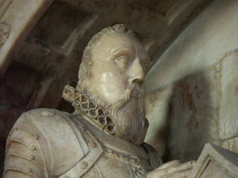 en:St Oswald's Church, Ashbourne |St Oswald's Church in :en:Ashbourne, Derbyshire |Ashbourne , Derbyshire, England